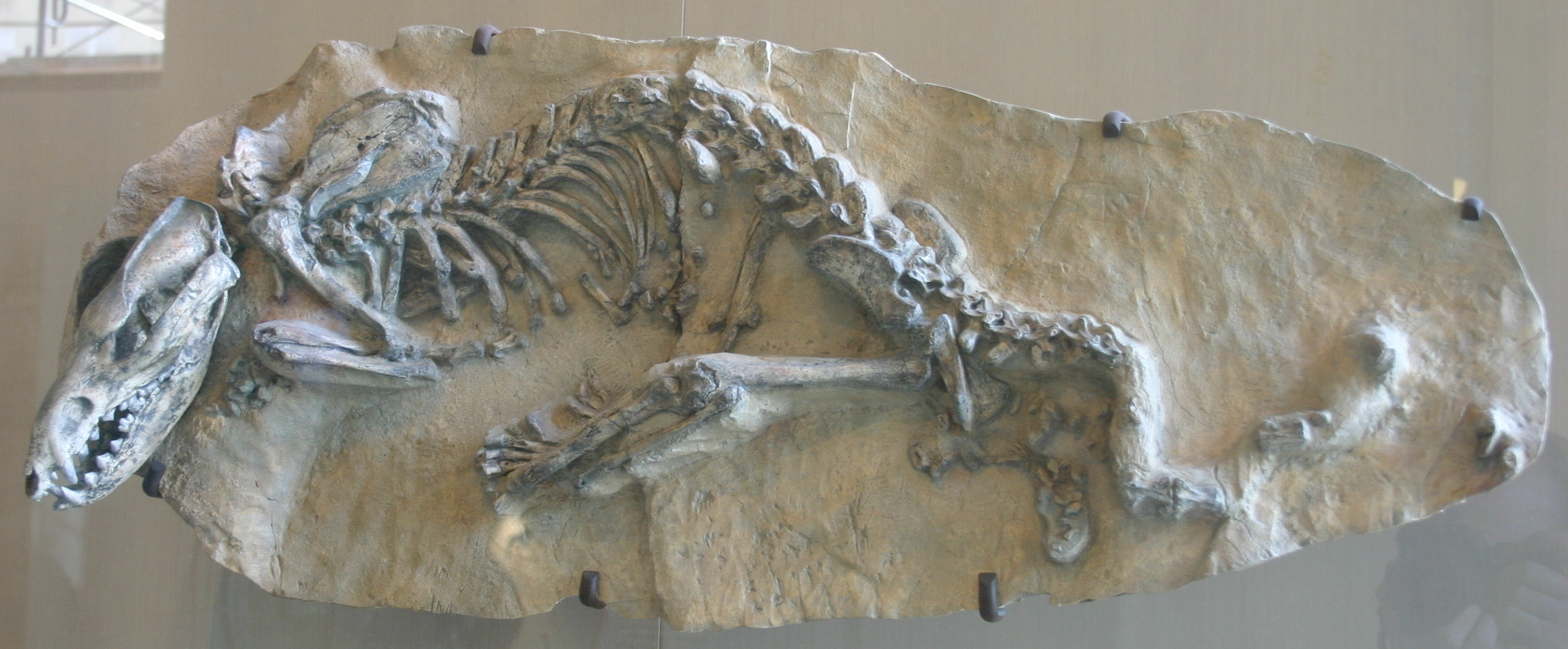 wolf form Visit my blog at